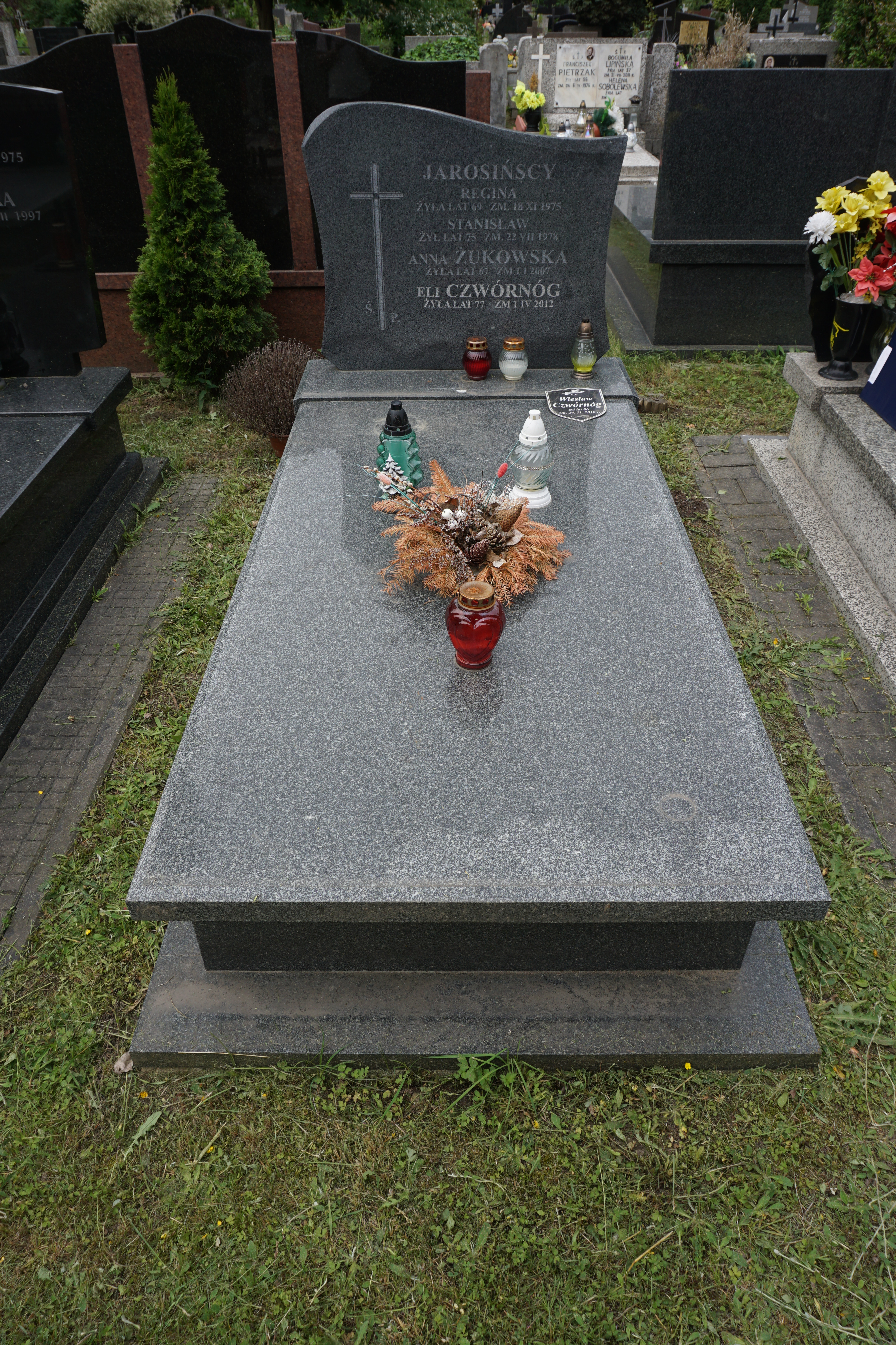 The grave of Wiesław Czwórnóg at the North Municipal Cemetery in Warsaw (section E-XIII-4, row 7, grave 8)